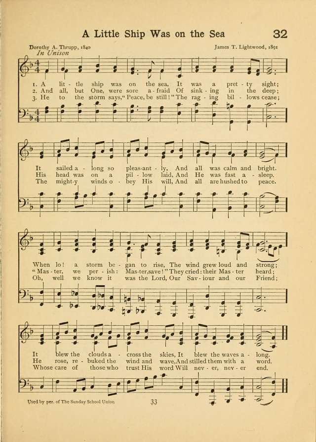 A little ship [was] on the sea it was a pretty sight. 1891 print. Lyricks by Dorothea Ann Thrupp died 1847. Music by James Thomas Lightwood (1856-1944).